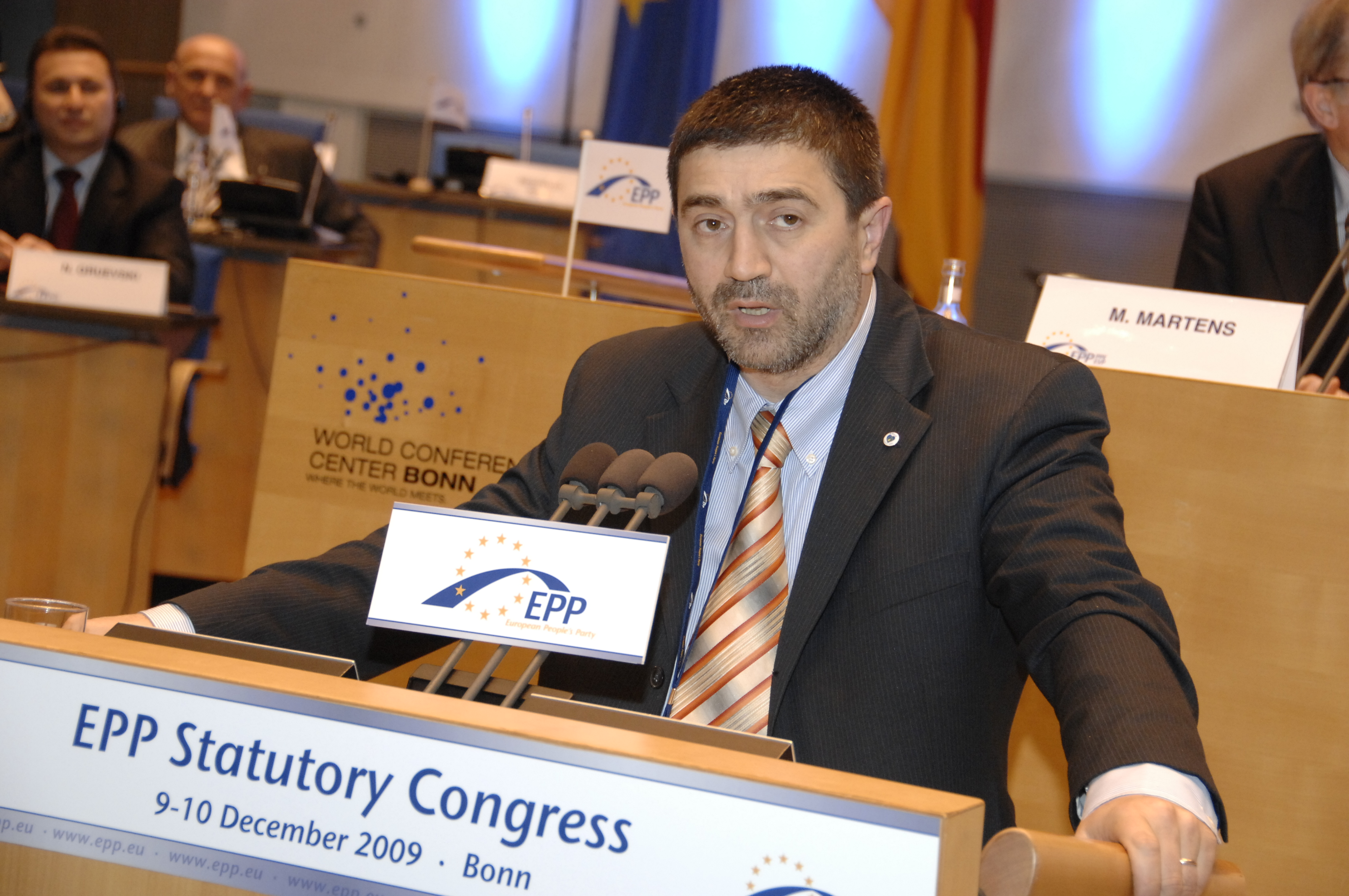 EPP Congress Bonn